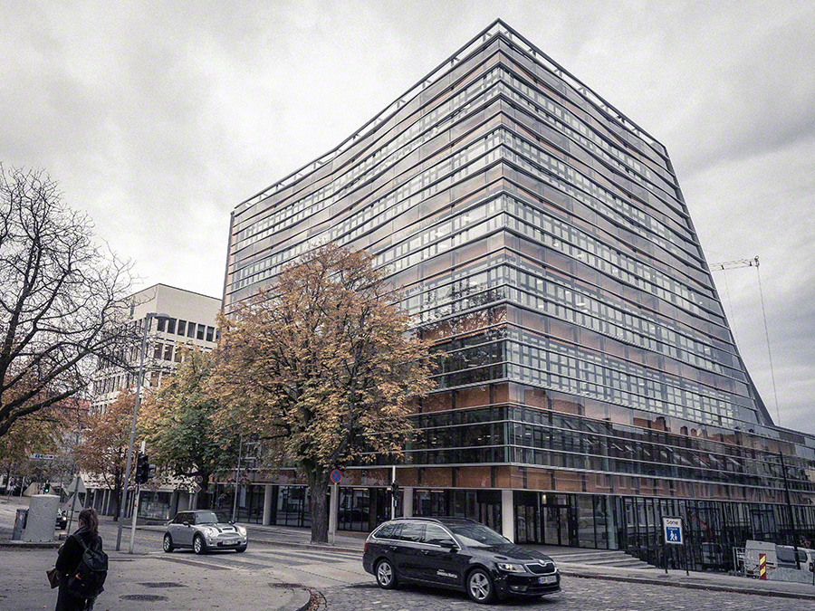 The headquarters of the bank Sparebanken Vest in Bergen was completed in 2015.